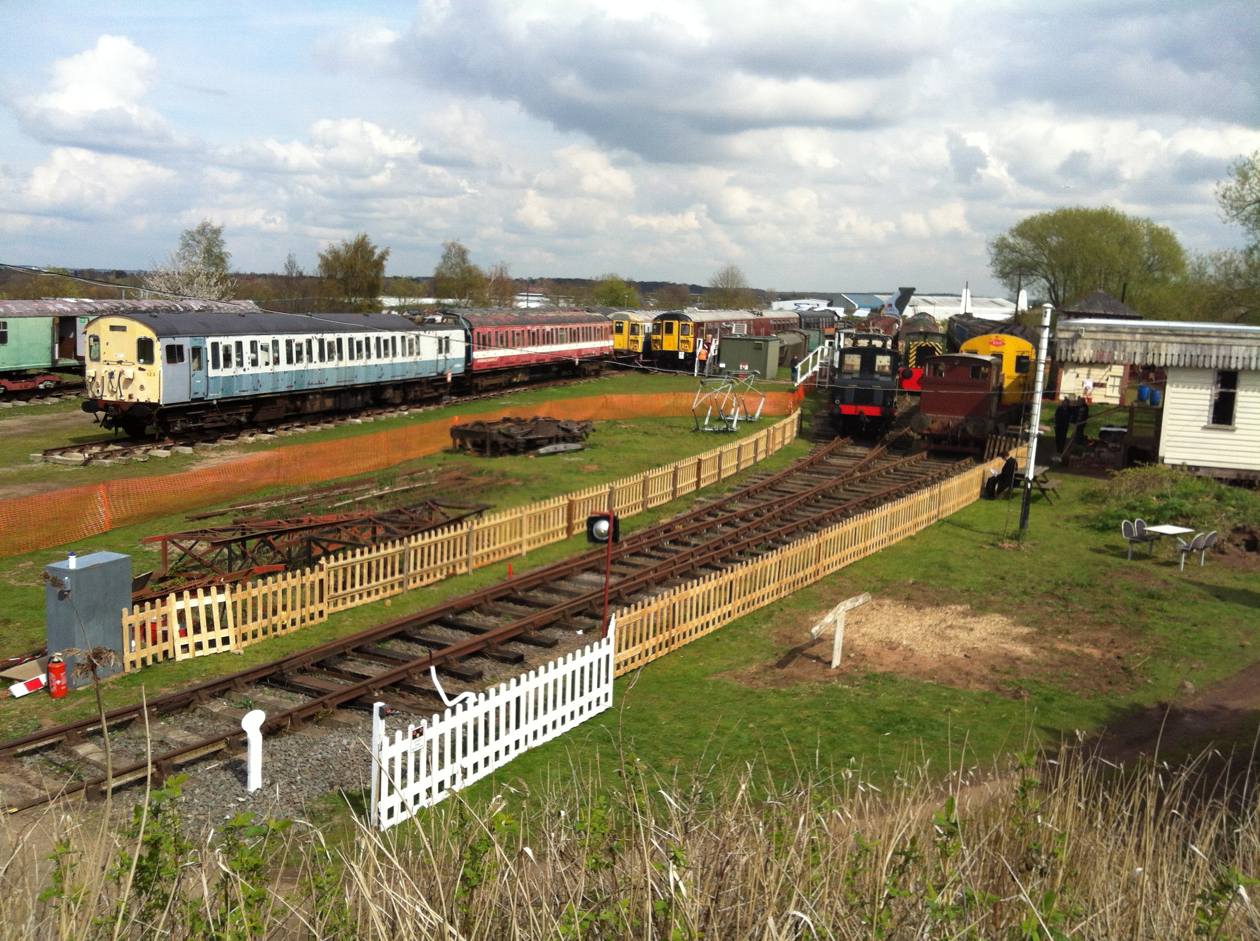 Taken on 14th April 2012 a view of the Electric Railway Museum site.